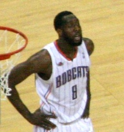 Kemba Walker attempts a free throw in the Charlotte Bobcats vs. Chicago Bulls game on Feb. 10, 2012.